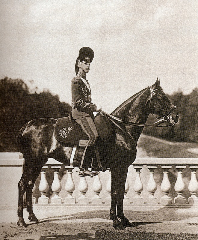 Grand Duke Dimitri Constantinovich. Strelna 1880s.